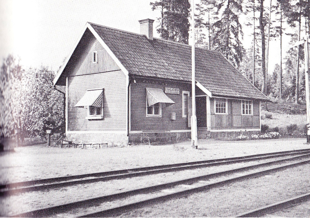 Stafsjöbruk (Stavsjöbruk) railway station at Stafsjö Järnväg in Sweden.